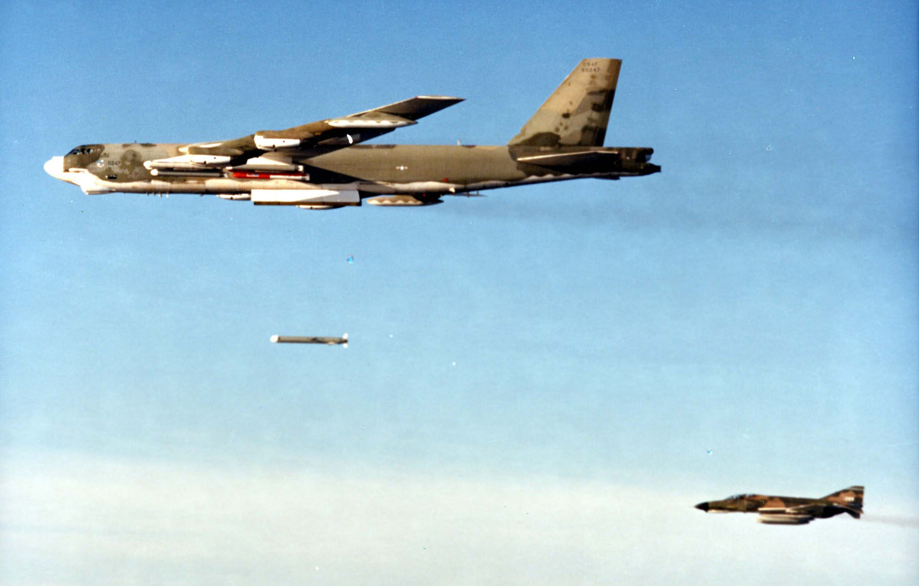 Boeing B-52G in flight dropping a ALCM